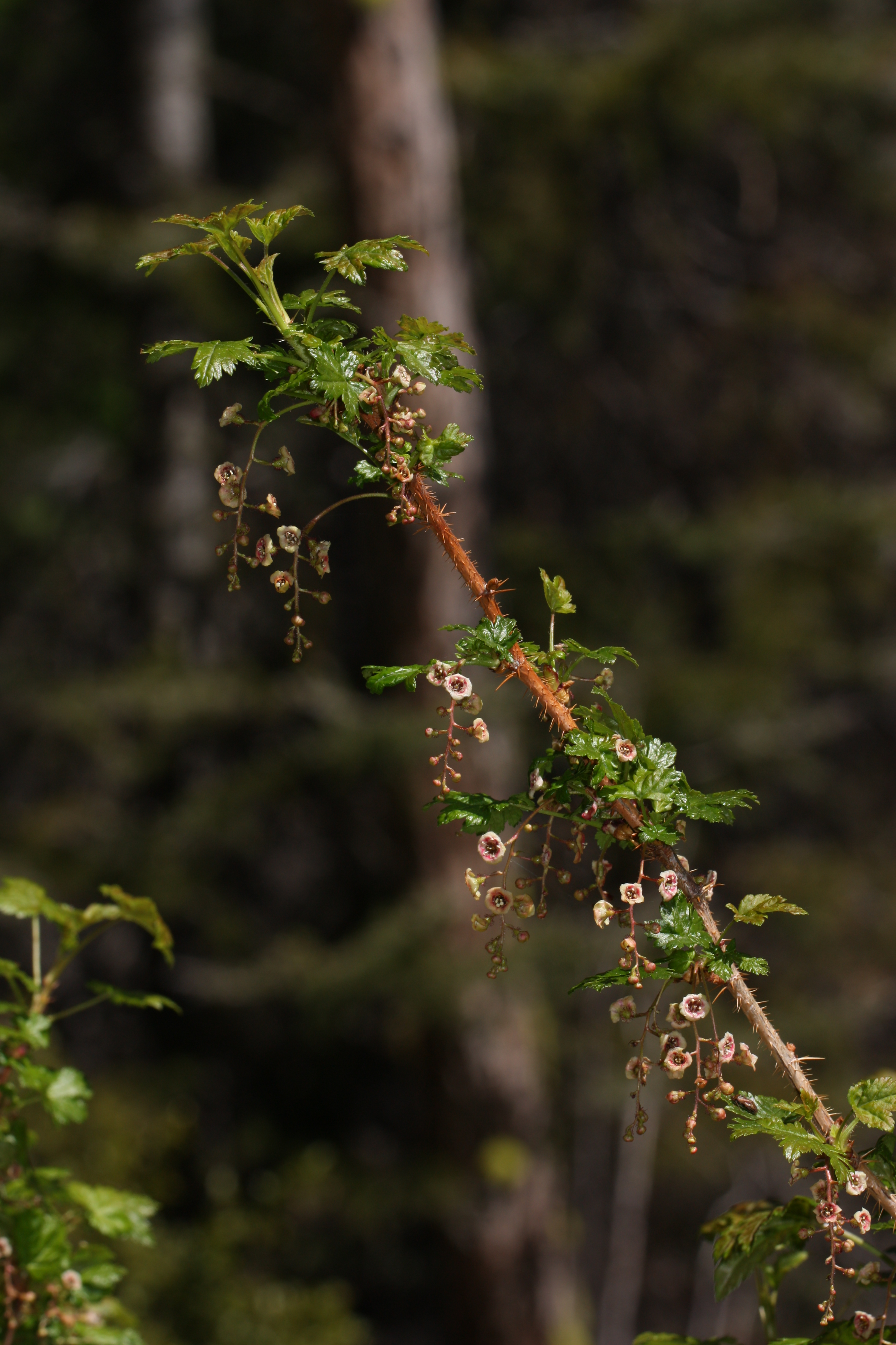 Prickly Currant, Bristly Black Gooseberry, Swamp Gooseberry, Swamp Currant Viewpoint location: Squilchuck_Trail #1200 to Clara Lake (5040 feet), Colockum State Wildlife Area Viewpoint elevation: 1494 meter (4903 ft) Location source: Garmin GPSmap 60CSx Location Datum: WGS84